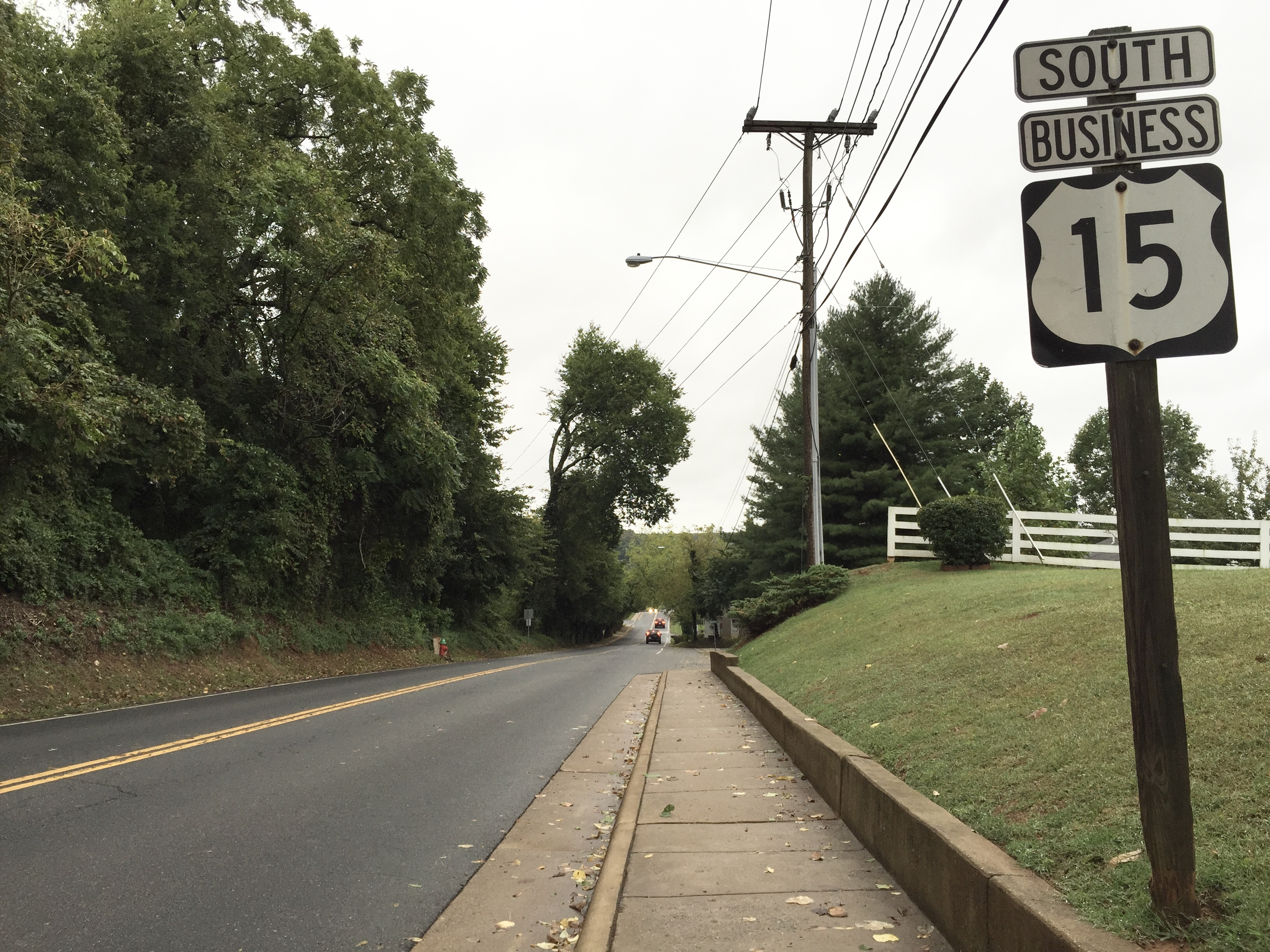 View south along U.S. Route 15 Business (Falmouth Street) between Old Meetze Road and Kingsbridge Court in Warrenton, Fauquier County, Virginia